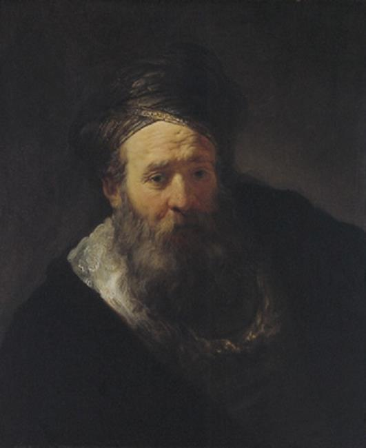 This image is available from the Netherlands Institute for Art Historyunder digital ID 268900. This tag does not indicate the copyright status of the attached work. A normal copyright tag is still required. See Commons:Licensing.